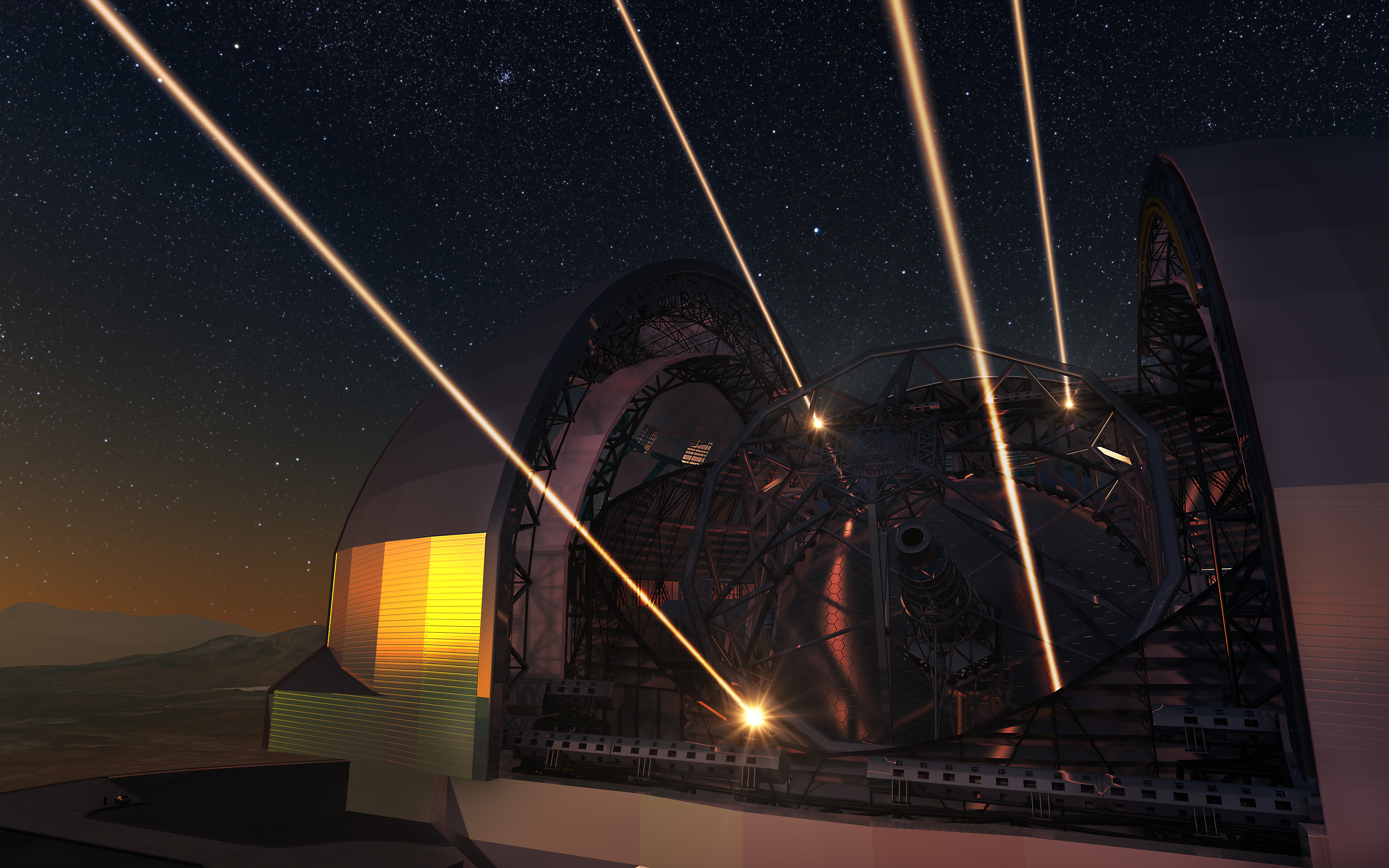 The E-ELT will make extensive use of adaptive optics to achieve images of remarkable sharpness. In this artist’s view the future 39-metre telescope is shown using lasers to create artificial stars high in the atmosphere. These are used as part of the telescope’s sophisticated adaptive optics system to remove much of the blurring effect of the Earth’s atmosphere.